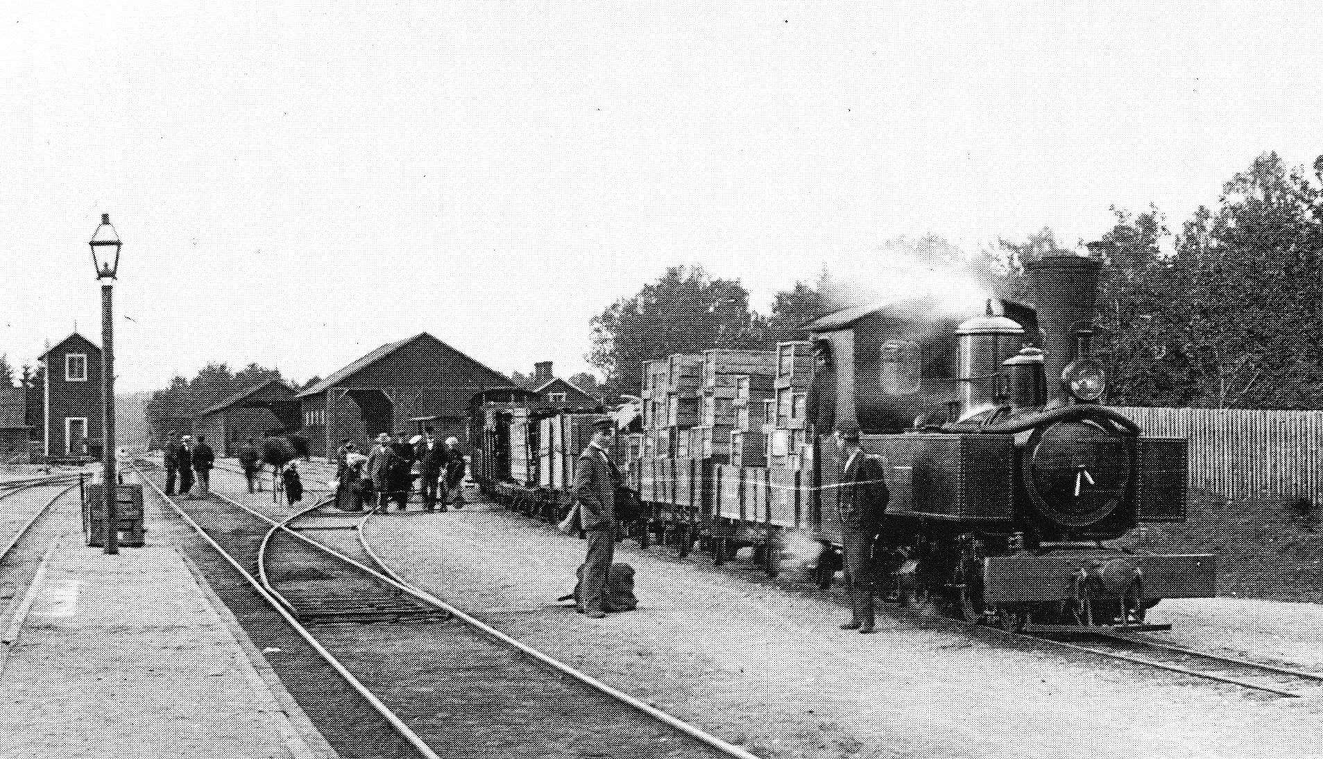 The train from Kosta arrives at Lessebo station in Sweden ca 1905.